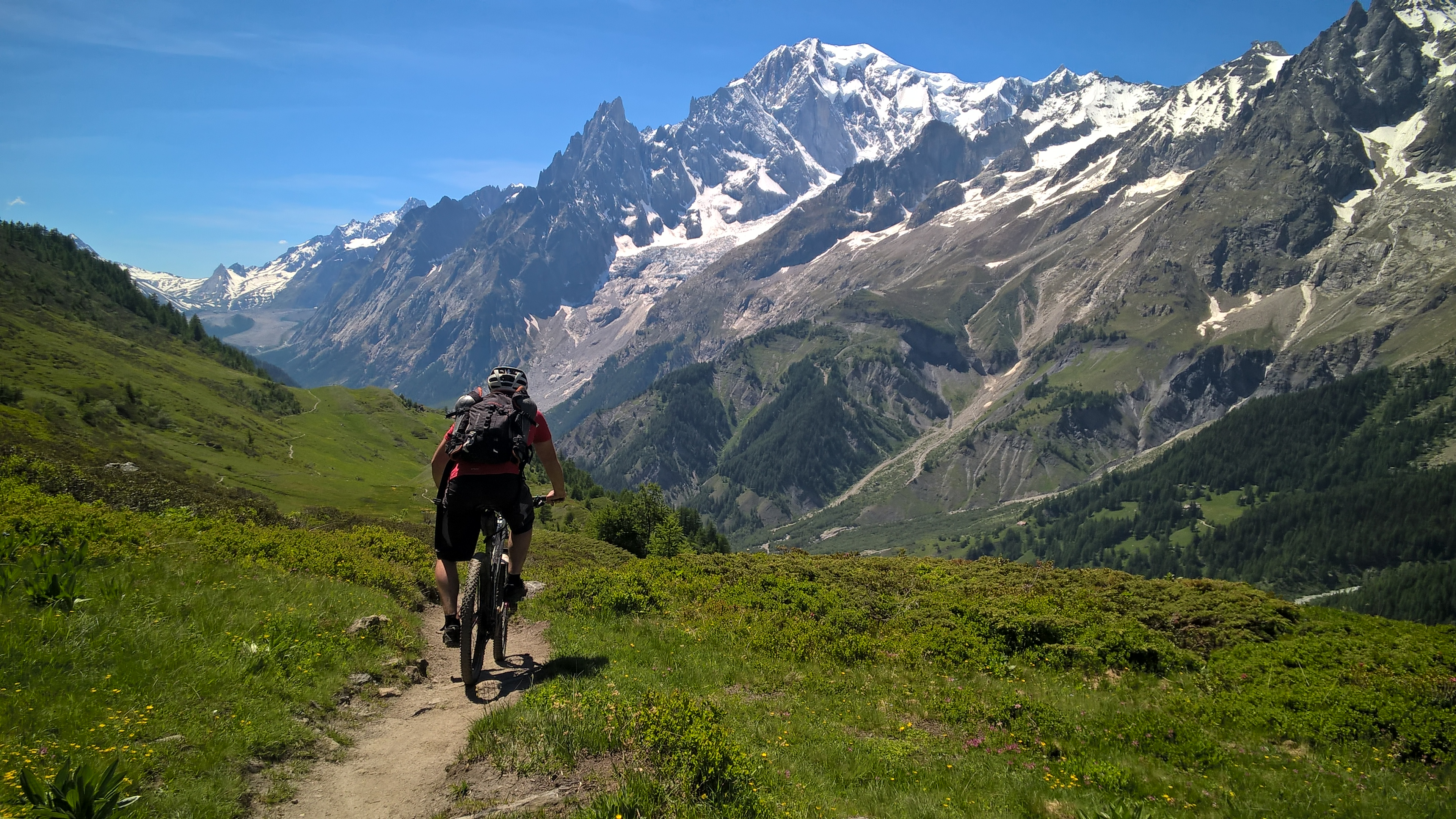 Val Ferret (Q49966925) High path towards refuge Bonatti